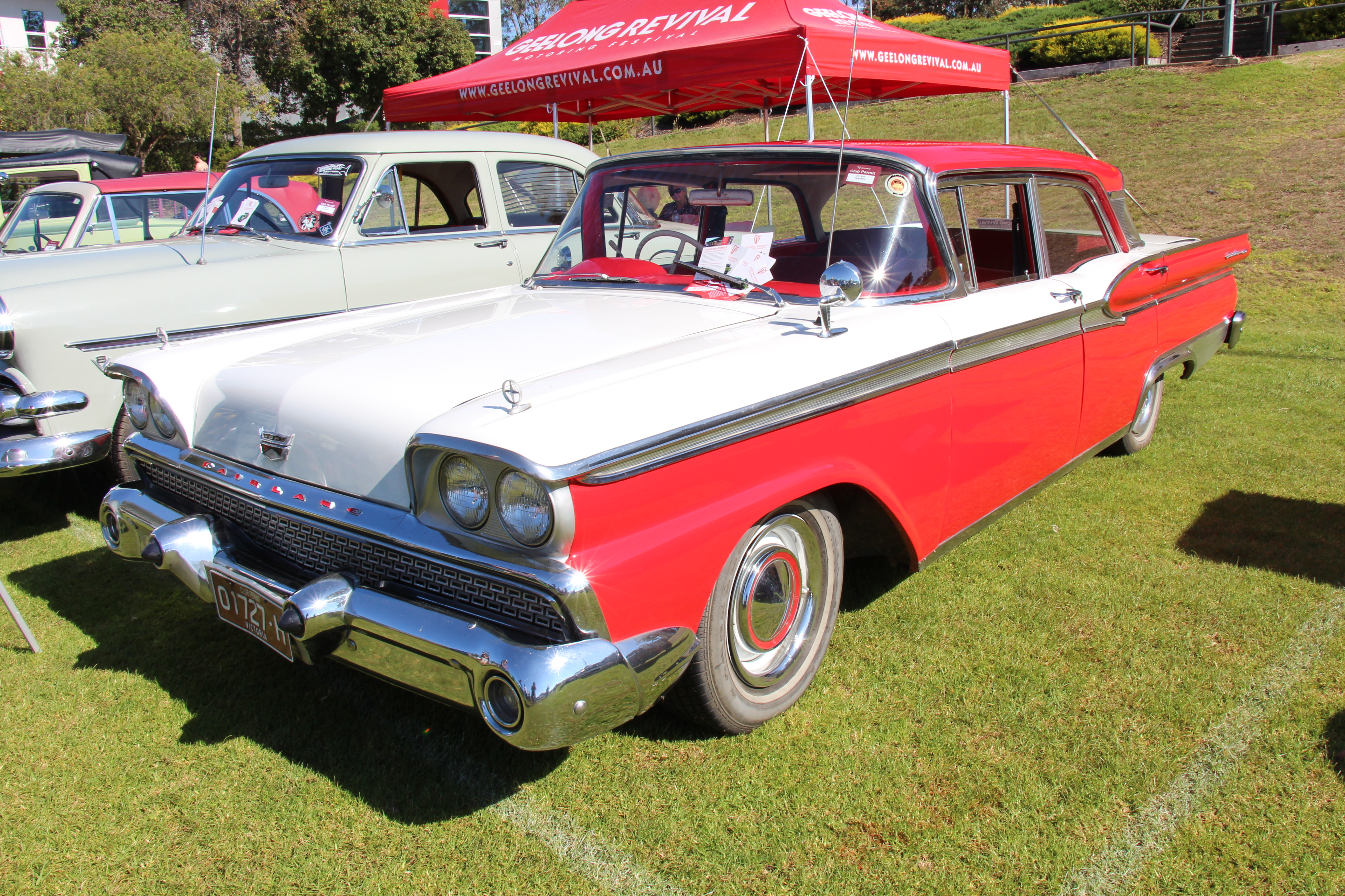 1960-61 Australian built Ford Fairlane 500 Sedan. Ford Australia built the 1959 US Fairlane from 1959 until replaced by the 1962 US Fairlane in early 1962. The example shown is a facelifted model, introduced in late 1960, which utilised the radiator grille from the 1959 Canadian Meteor.